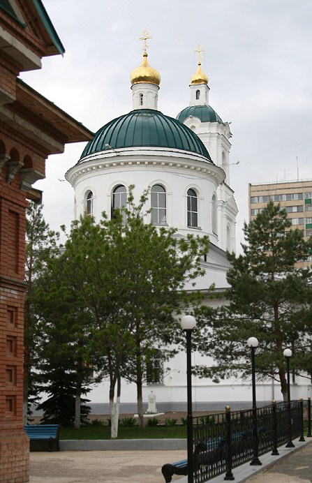 The Nikolsky cathedral in Orenburg. Russia